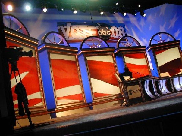 An image of the debate at Saint Anselm College during the New Hampshire primary... facebook sponsored the debates, I had the honor as a student to take the image